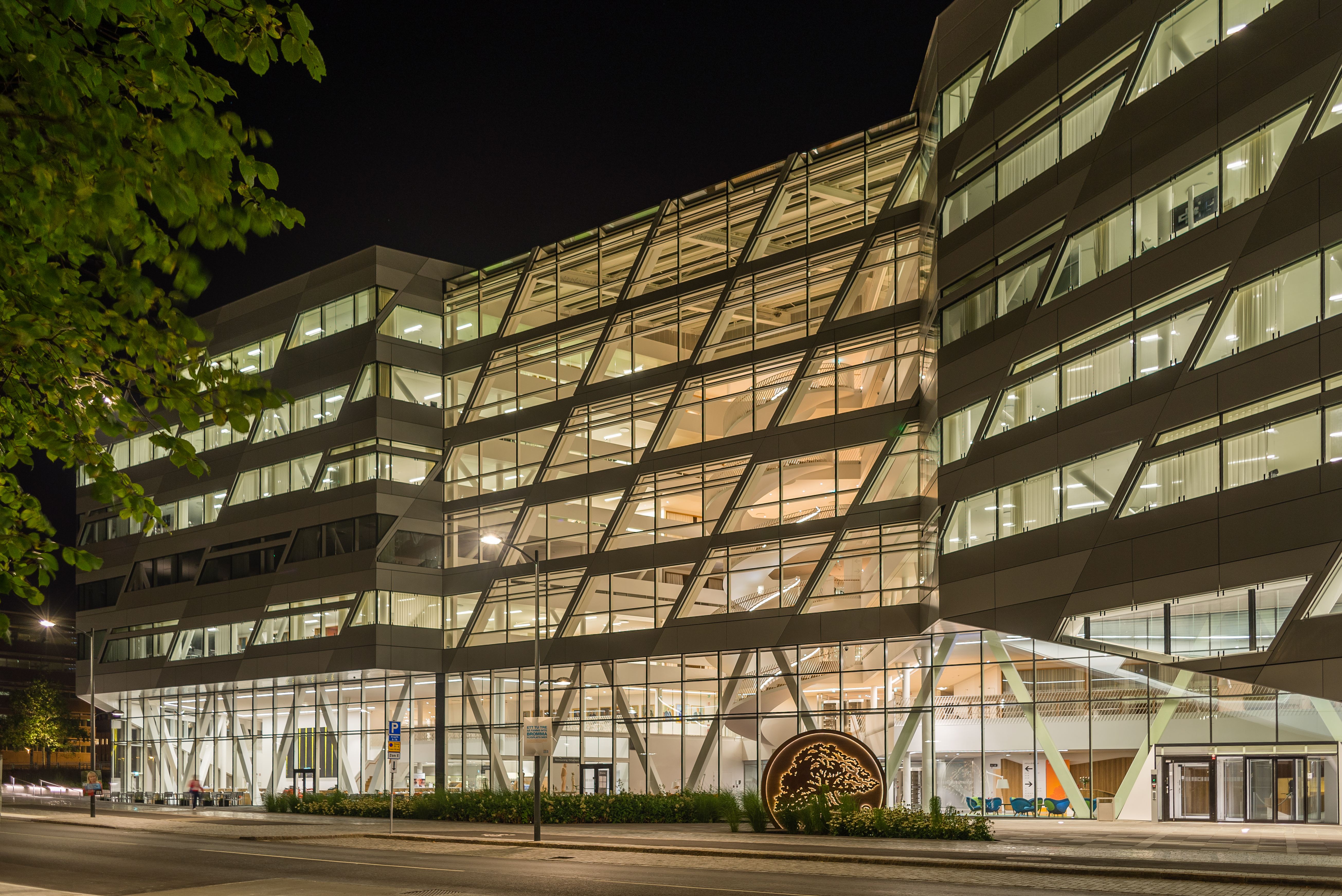 New corporate headquarter for Swedbank in Sundbyberg, Stockholm. Inaugurated in 2014. Architects: 3XN.